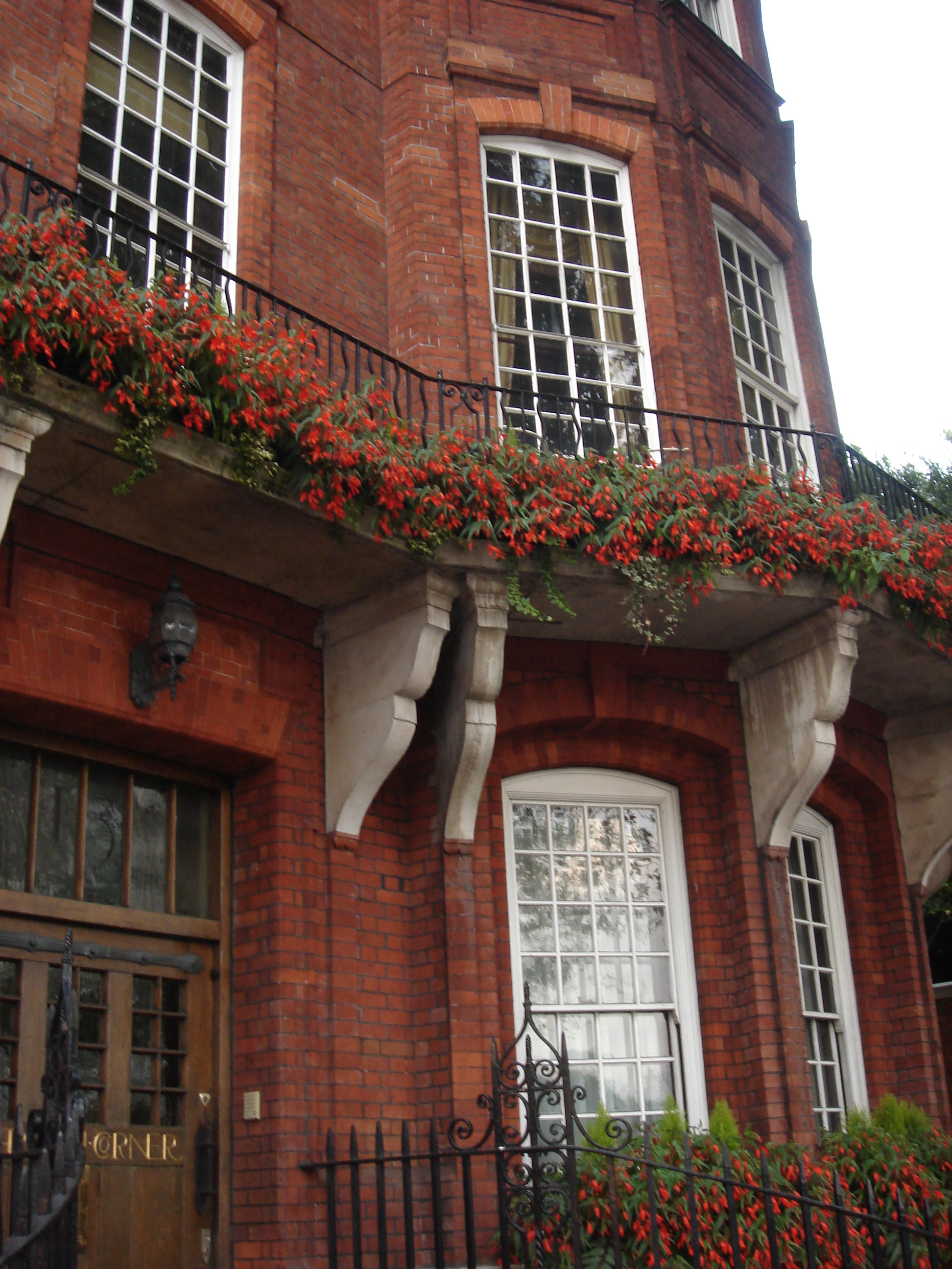 Garden Corner, 13 Chelsea Embankment, London